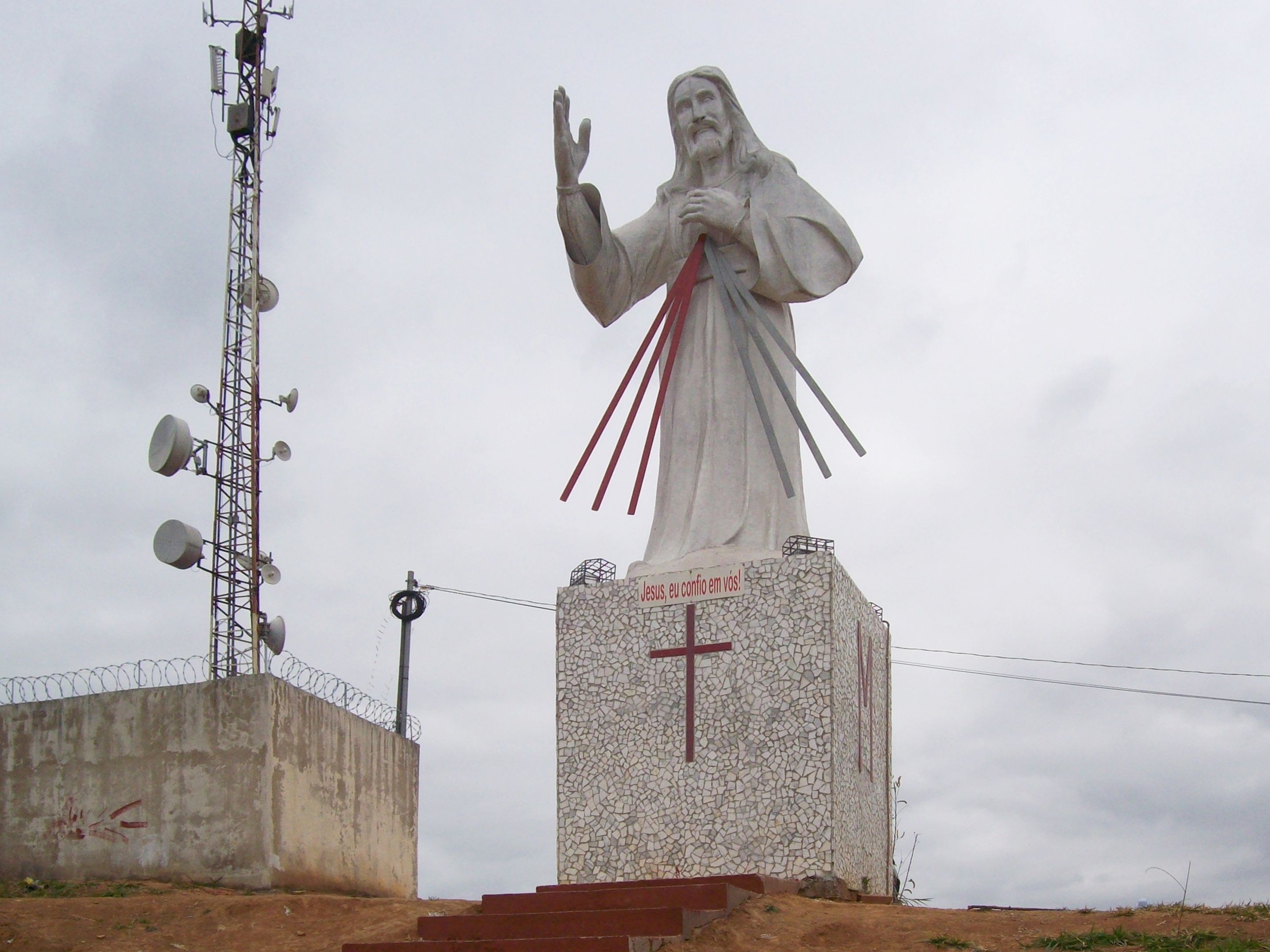 View of the Divine Mercy monument, in Coronel Fabriciano, Minas Gerais, Brazil.